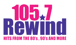 Former WQSH logo under the branding of Rewind 105.7. Used from 2015 to 2018.